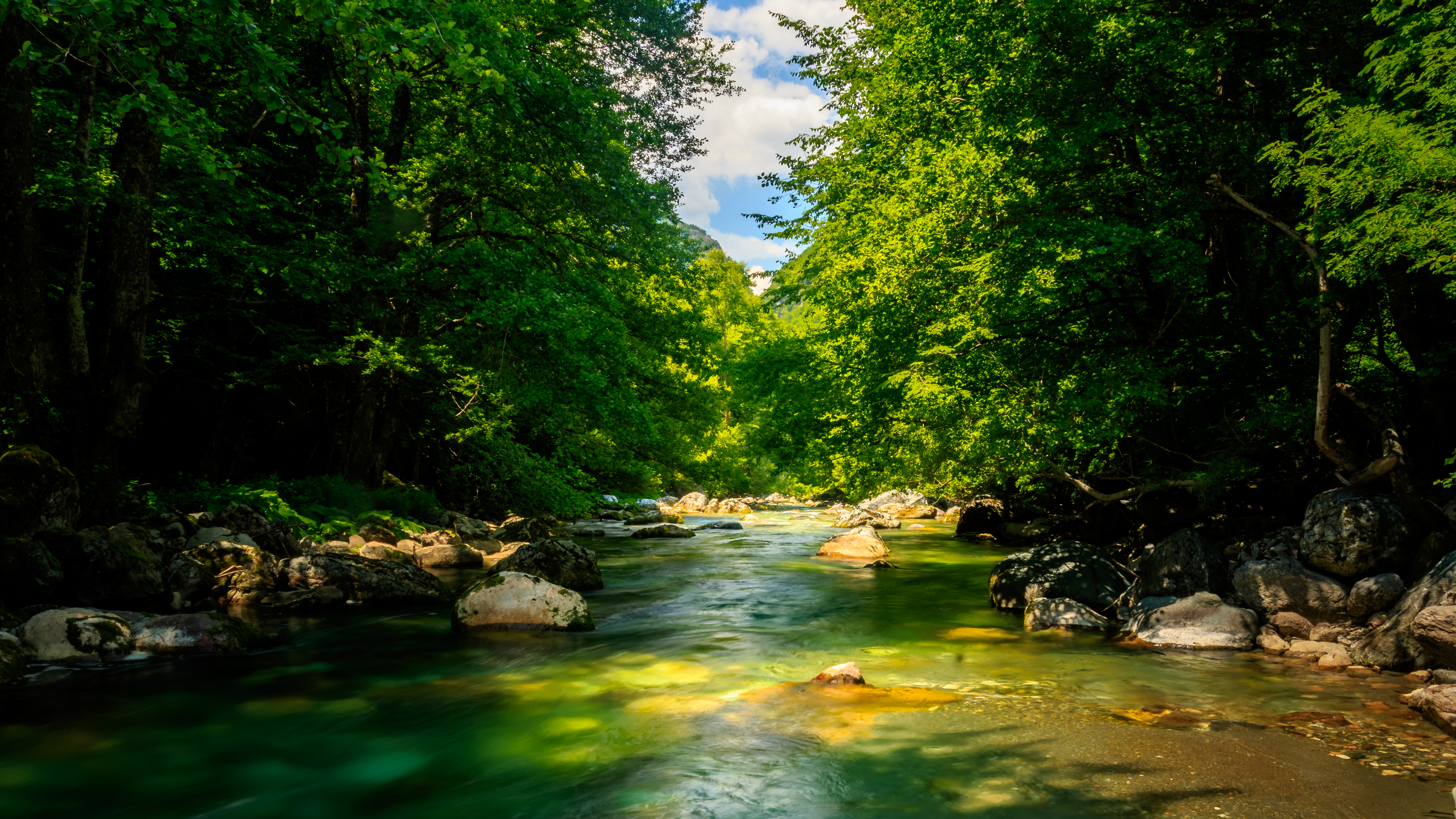 The Radika flowing in Macedonia.